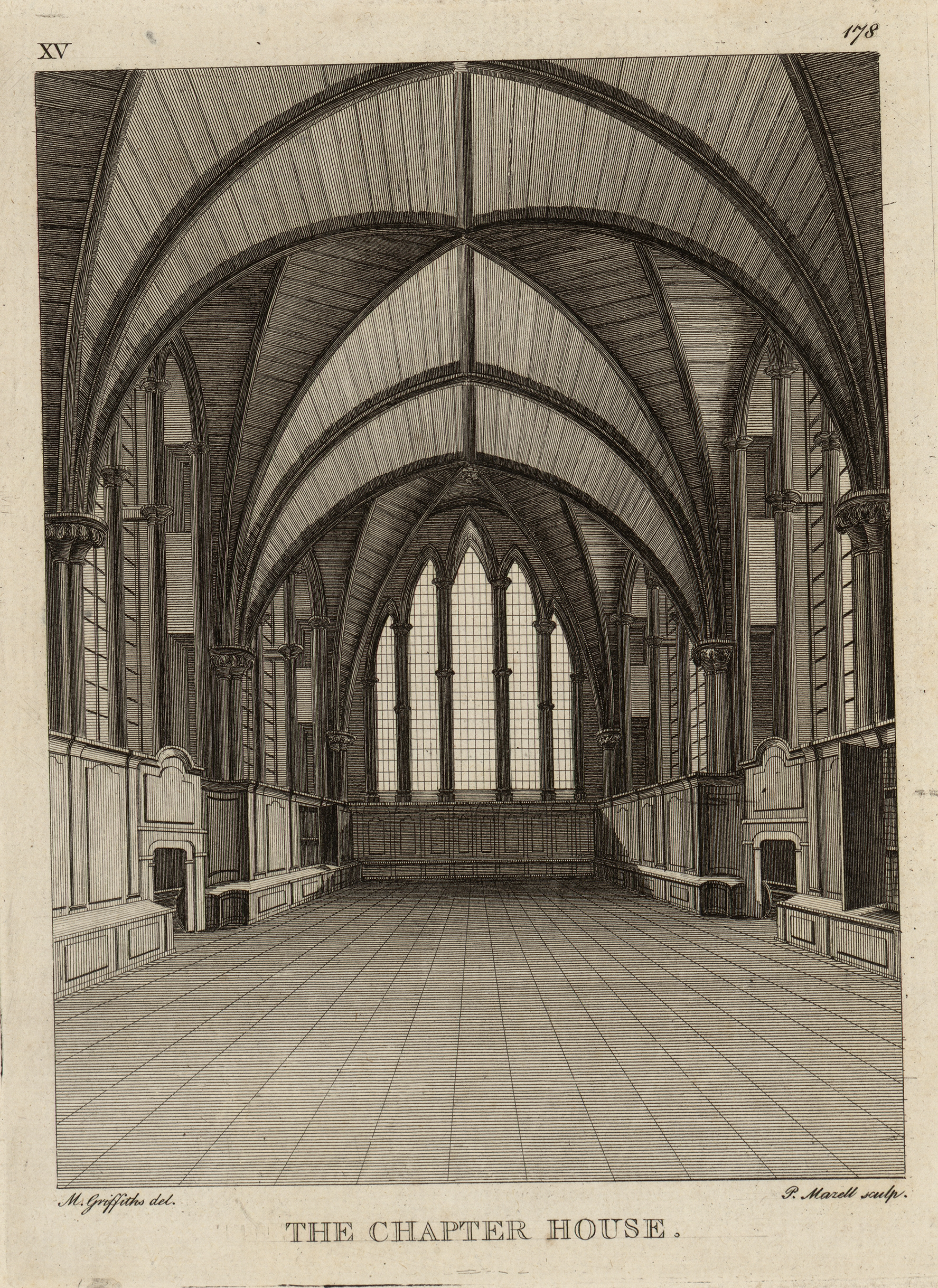 An image from a set of 8 extra-illustrated volumes of A tour in Wales by Thomas Pennant (1726-1798) that chronicle the three journeys he made through Wales between 1773 and 1776. These volumes are unique because they were compiled for Pennant's own library at Downing. This edition was produced in 1781. The volumes include a number of original drawings by Moses Griffiths, Ingleby and other well known artists of the period. Thomas Pennant (1726-1798)